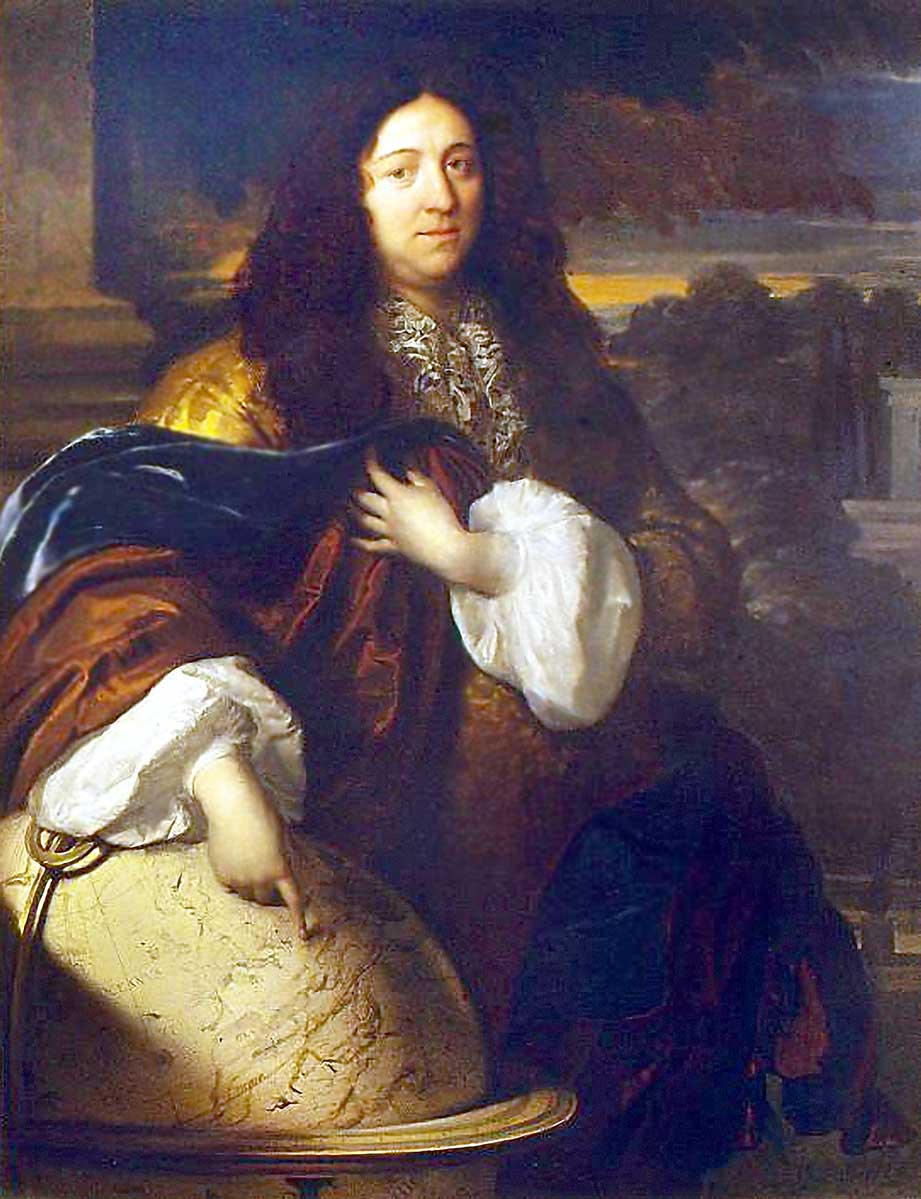 Jacobus Gronovius (1645–1716) Dutch classical scholar